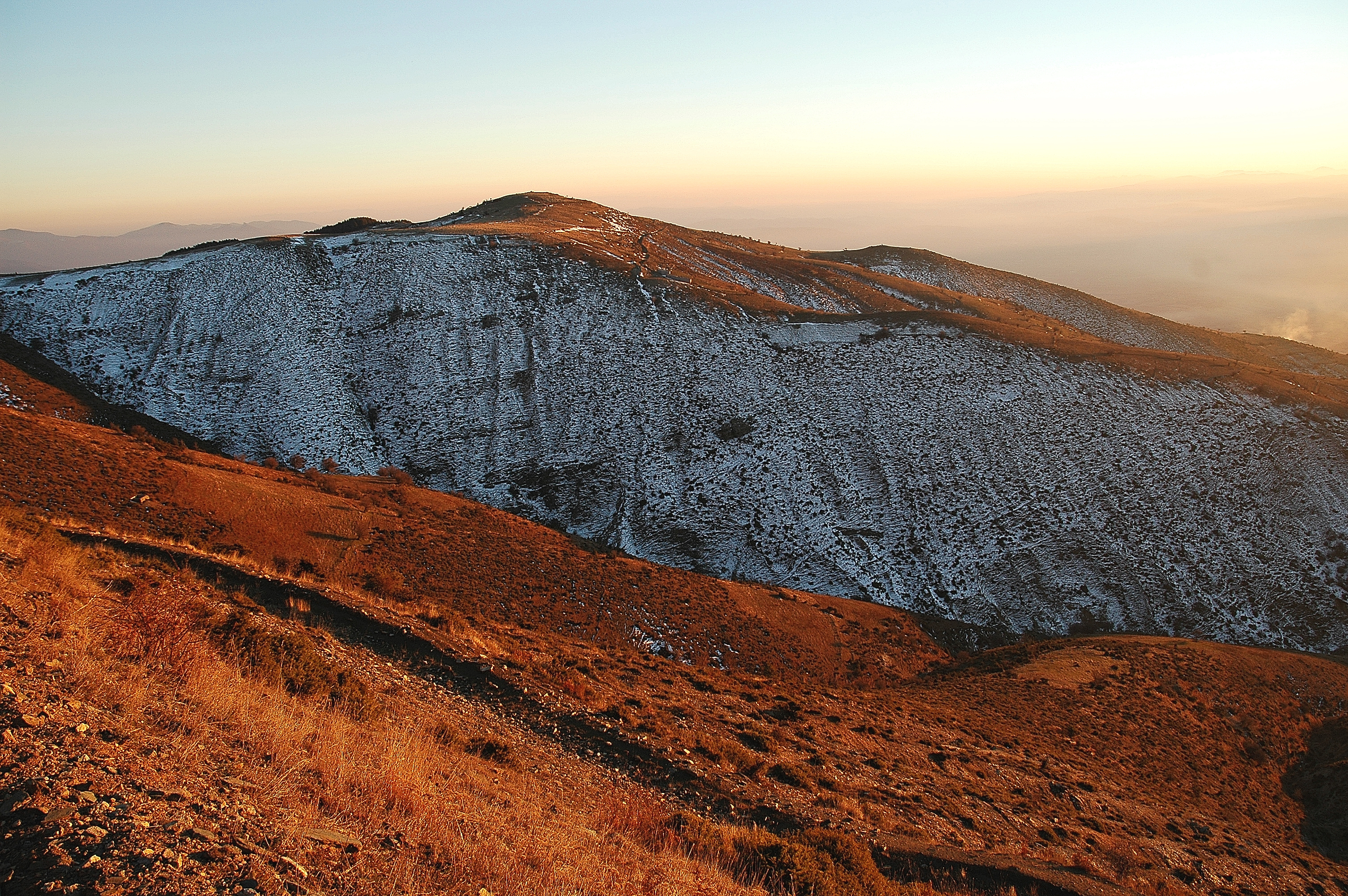 This is a photography of Natura 2000 protected area with ID GR1250003